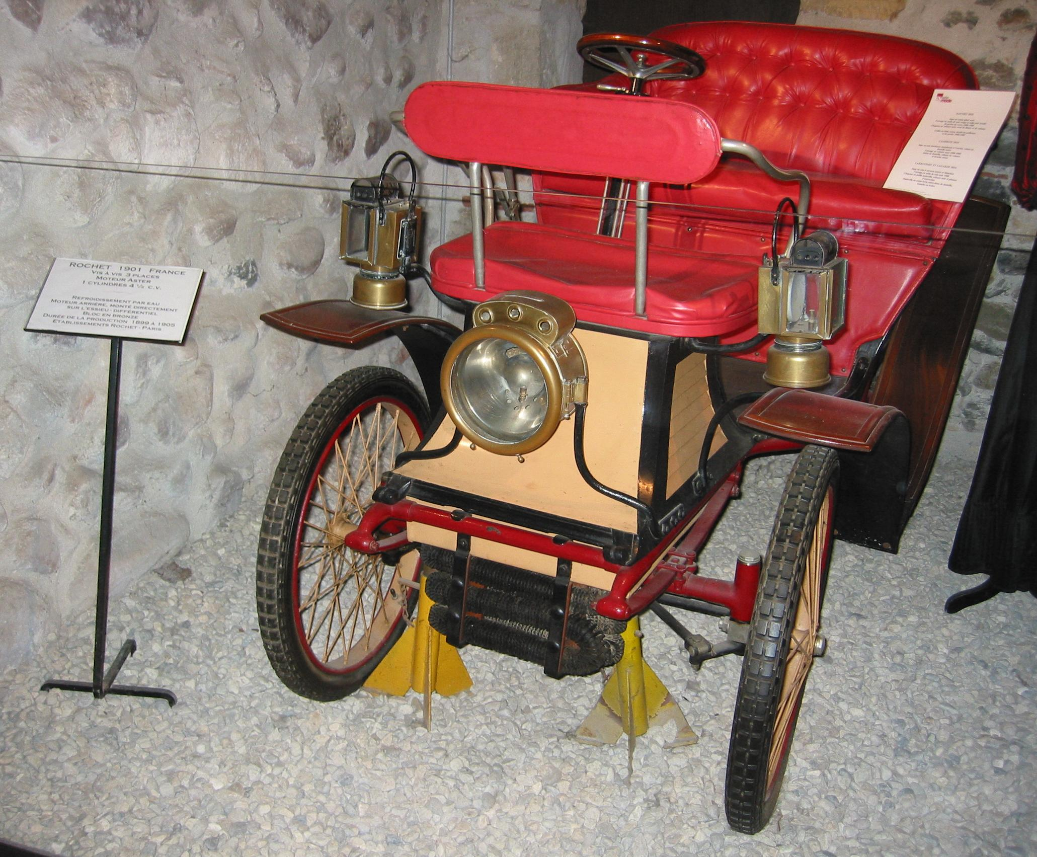 Rochet 1901 (Country of origin: France)